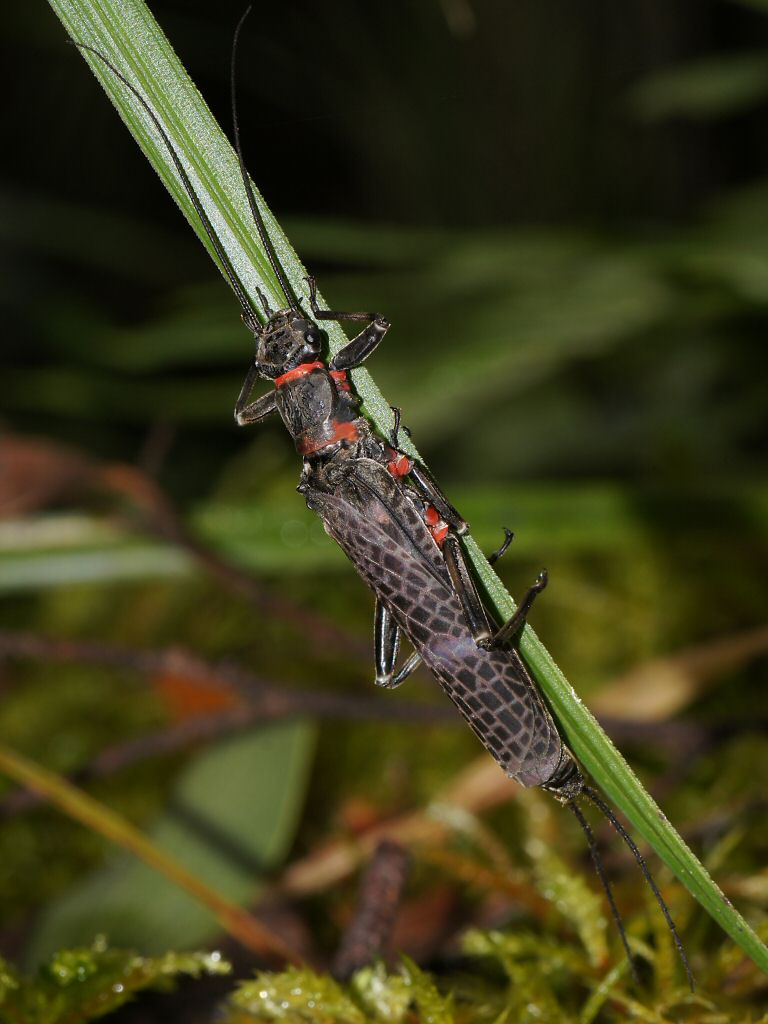 Eusthenia nothofagi in Victoria, Australia"used under a Creative Commons Attribution license"